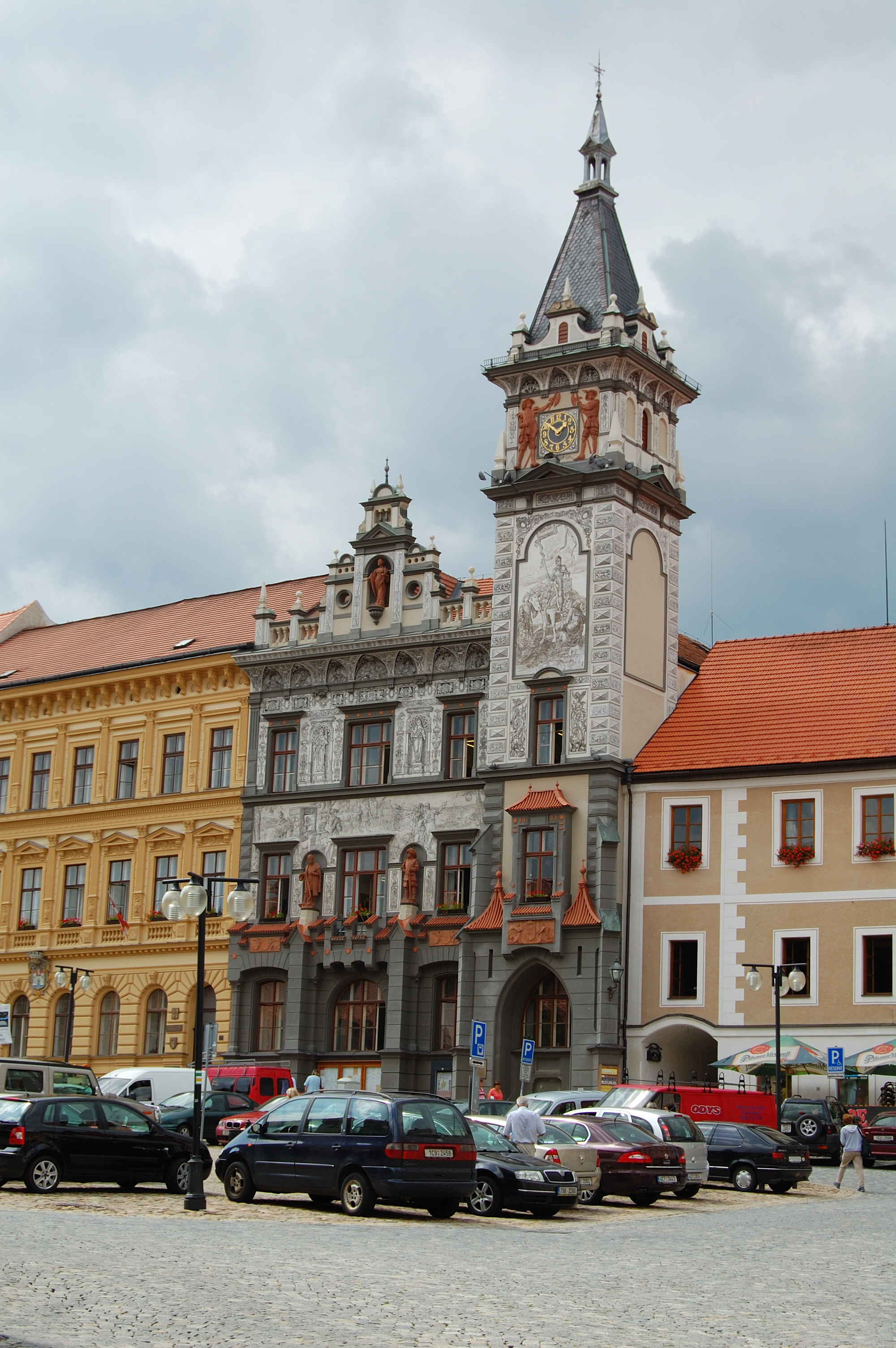 An old city hall of Prachatice, Czech Republic.